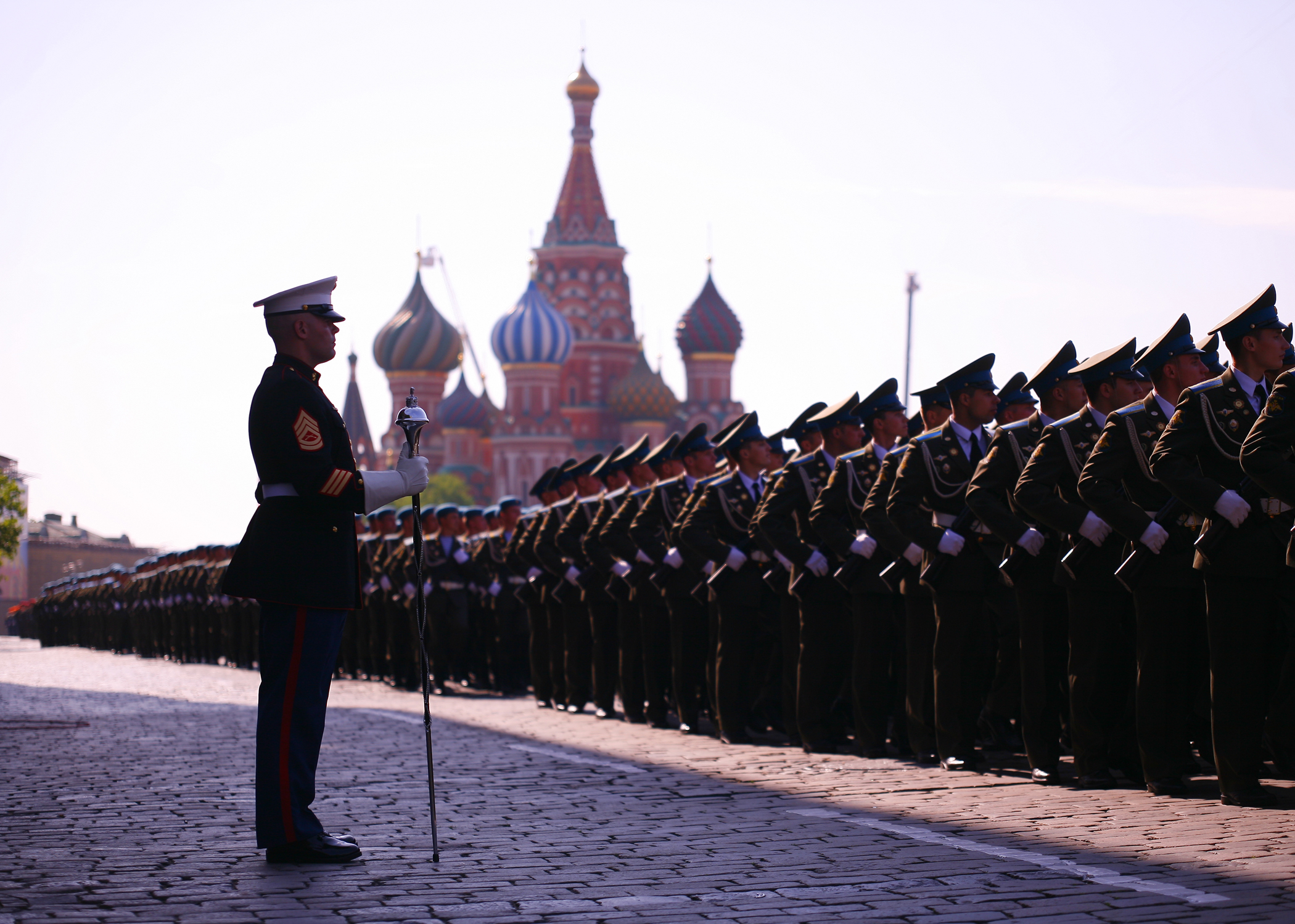 MOSCOW, Russia (May 9, 2010) Marine Corps Gunnery Sgt. Benjamin Becker, Drum Major for the U.S. Navy Band, stands in Red Square while waiting to perform during the 65th annual Victory Day Parade. Troops from Britain, France, Poland and the United States marched with 10,000 Russian forces in front of about two dozen world leaders to commemorate the end of World War II. The parade also featured tanks, ballistic missiles and a fly-over by 127 aircraft. (U.S. Navy photo by Mass Communication Specialist 1st Class Edward Vasquez/Released)